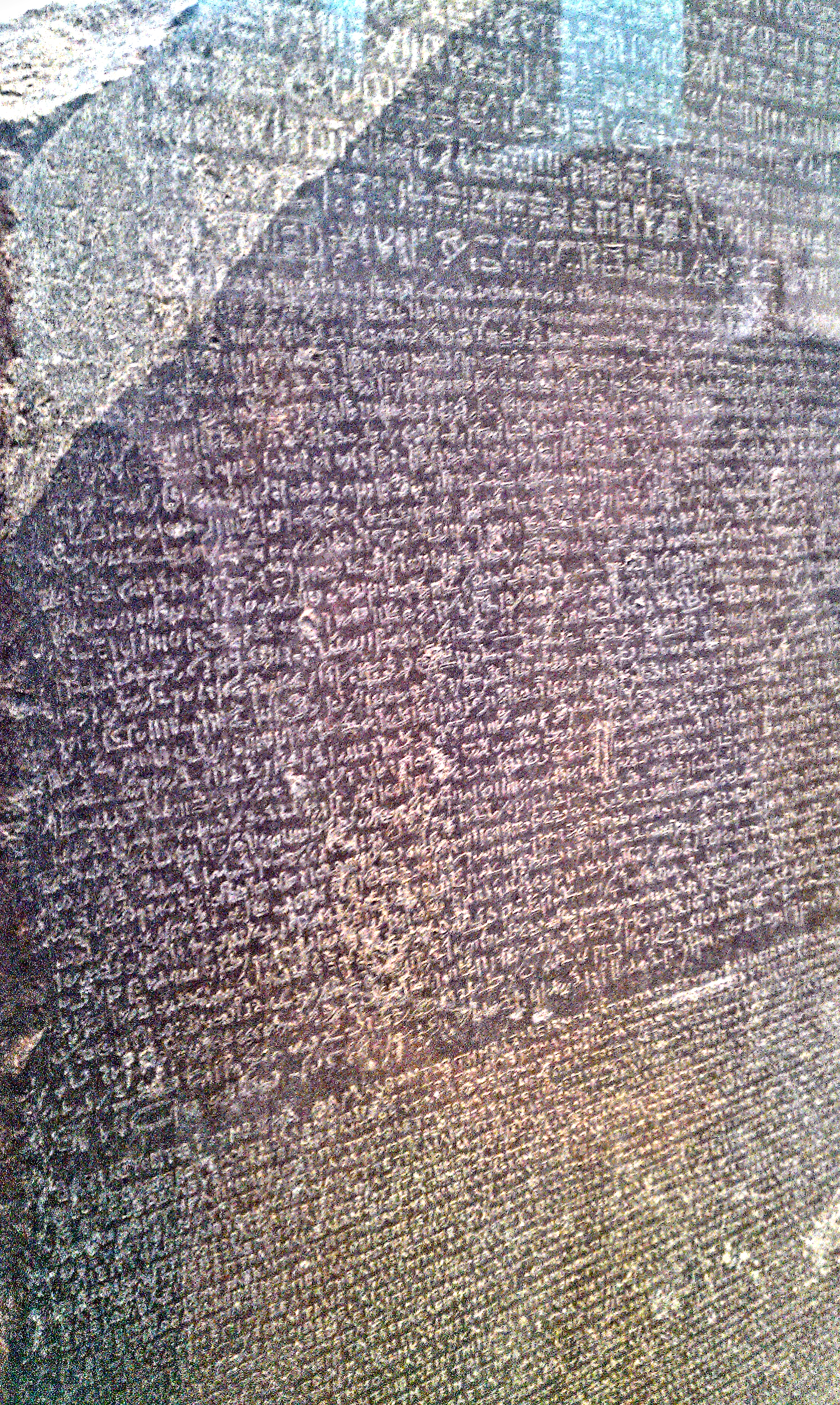 The Rosetta Stone - British Museum